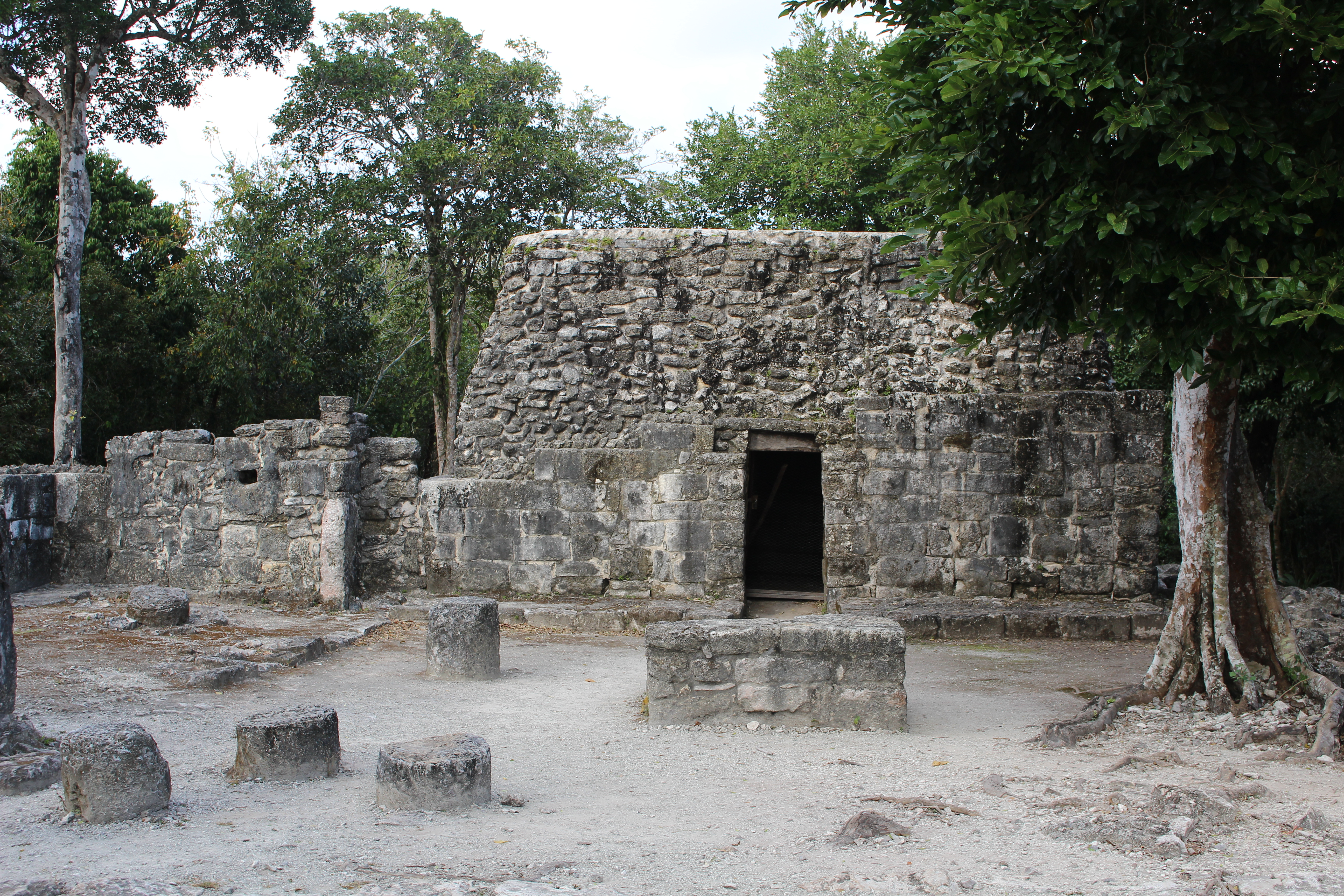 Los Murcielagos (Mayan: Pet Nah) at San Gervasio, Cozumel, Mexico